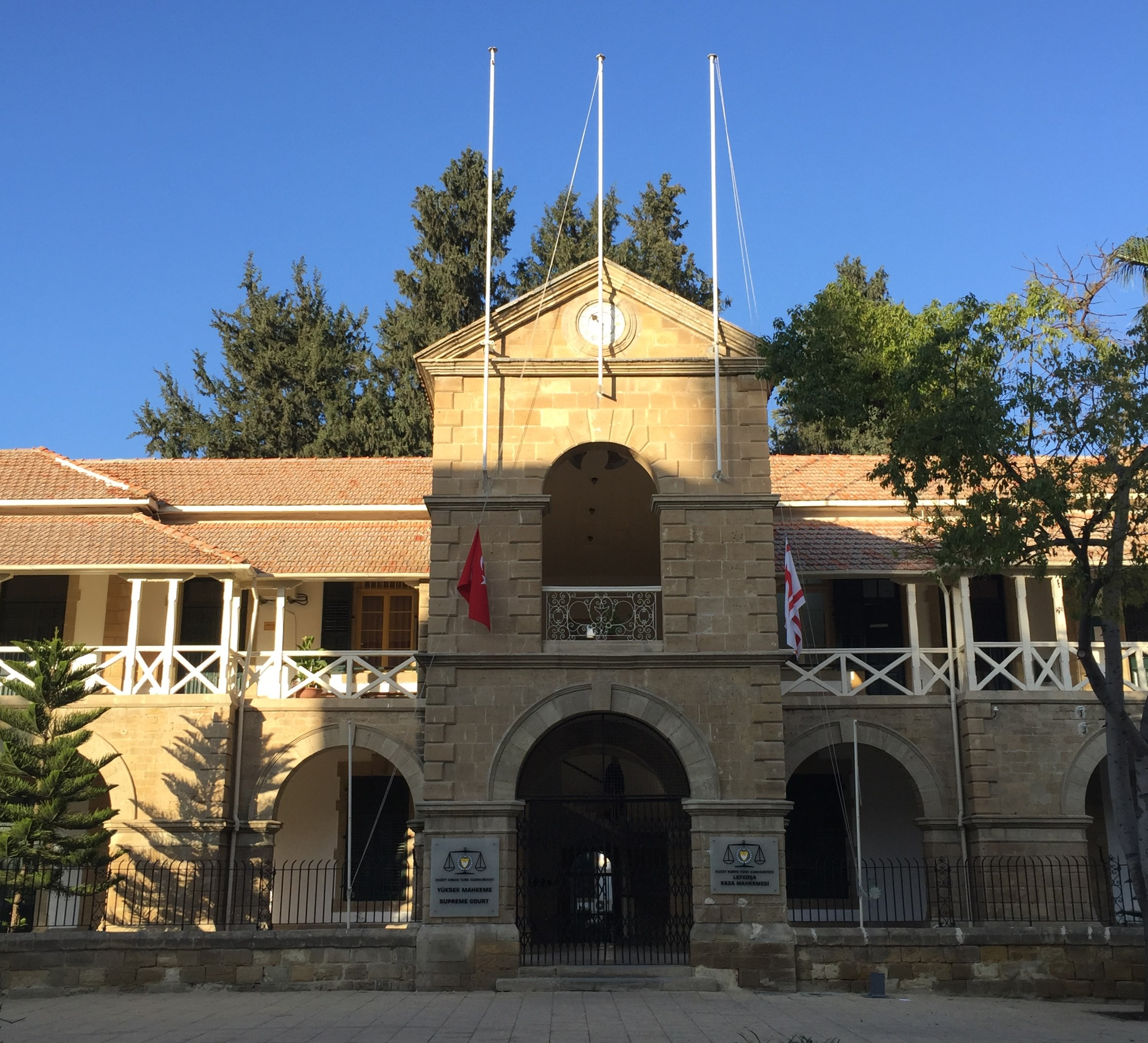 The front façade of the historical Law Courts building on Sarayönü Square, North Nicosia. Photo taken after the 2016 Sultanahmet bombing, hence the flags at half mast.